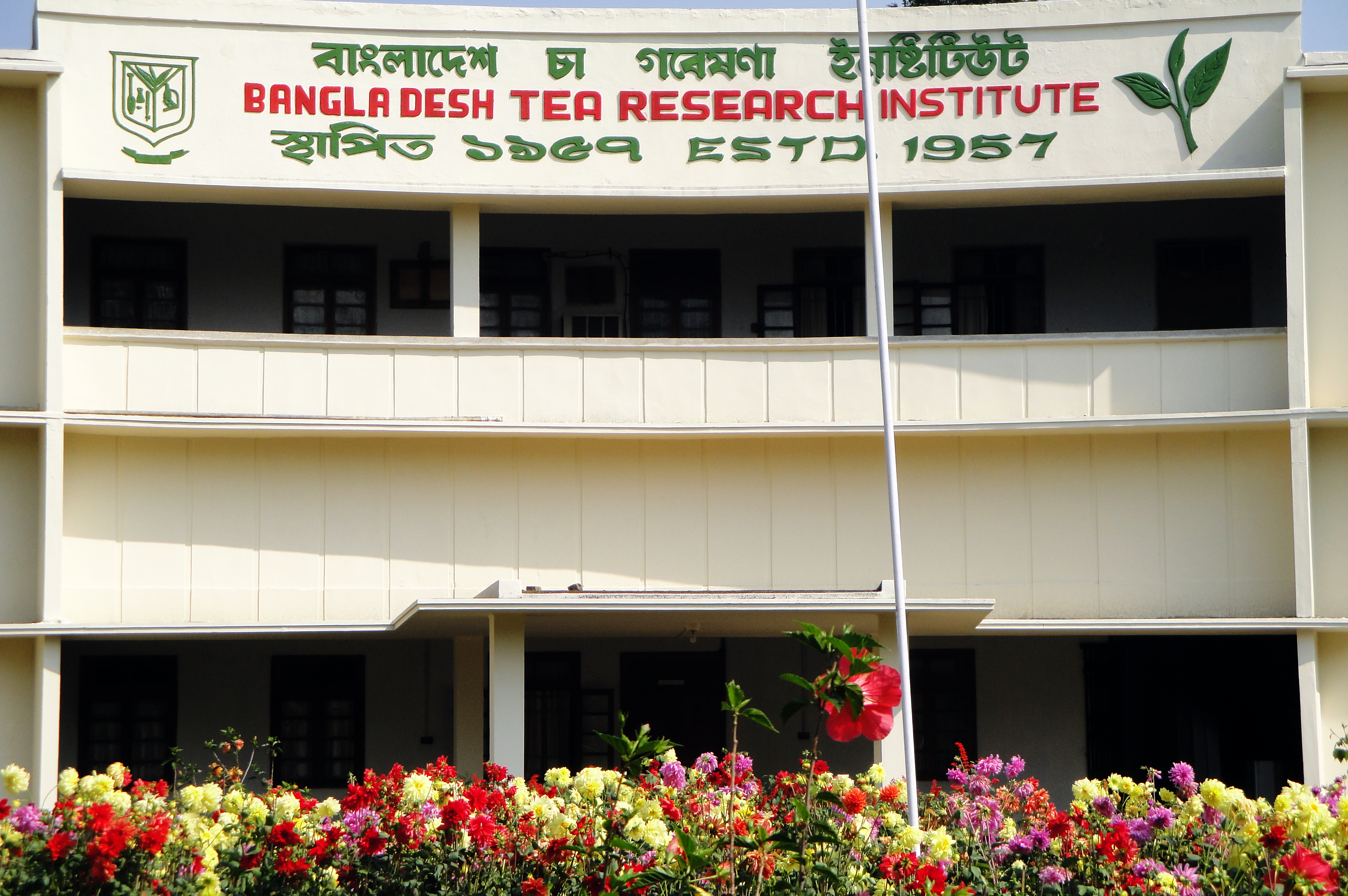 Bangladesh Tea Research Institute, Sreemangal, Maulvibazar District, Sylhet, Bangladesh.